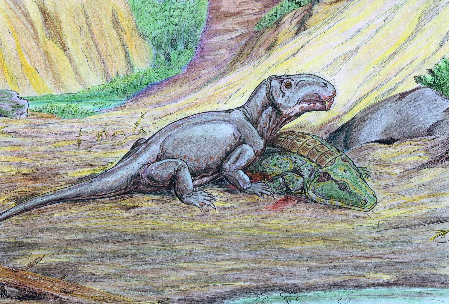 Brithopus priscus - very speculative picture